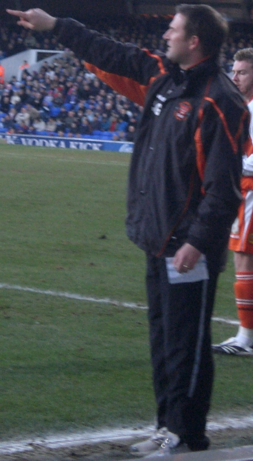 Simon Grayson. Image cropped from original at flickr.